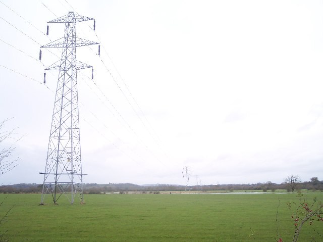 Power Lines over Ashleworth Ham. Flat water meadows on the flood plain of the River Severn. Looking almost west.